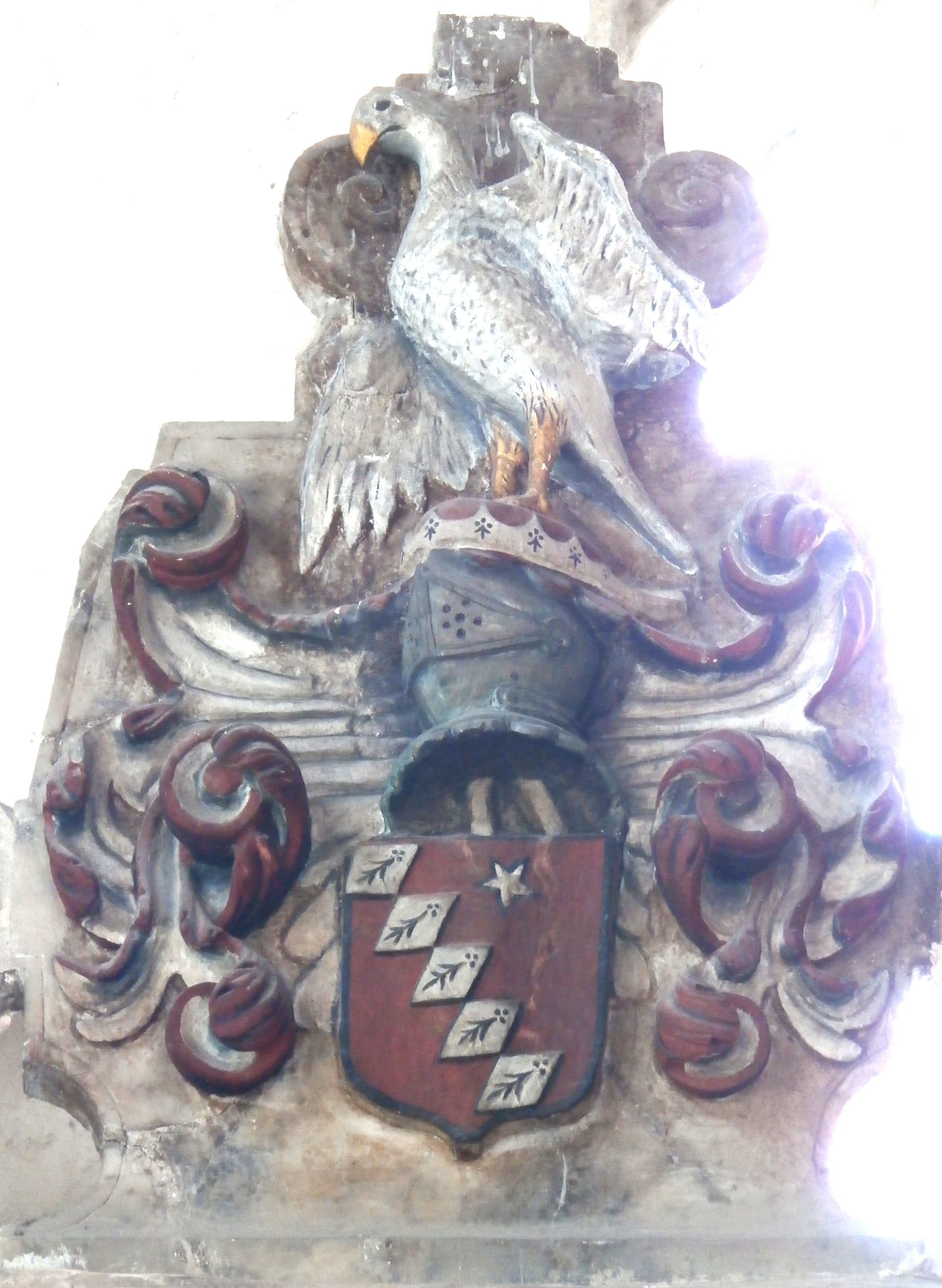 Heraldic achievement showing arms (Gules, five fusils in bend argent on each an ermine spot, with a mullet for the difference of a 3rd son) and crest (On a chapeau gules turned up ermine, an eagle close argent) of Elize Hele (1560–1635). Detail his monument, south side of chancel, Bovey Tracey Church, Devon. (Source for heraldry: Arms: Pole, Sir William (d.1635), Collections Towards a Description of the County of Devon, Sir John-William de la Pole (ed.), London, 1791, p.487; Crest: Vivian, Lt.Col. J.L., (Ed.) The Visitations of the County of Devon: Comprising the Heralds' Visitations of 1531, 1564 & 1620, Exeter, 1895, p.461)